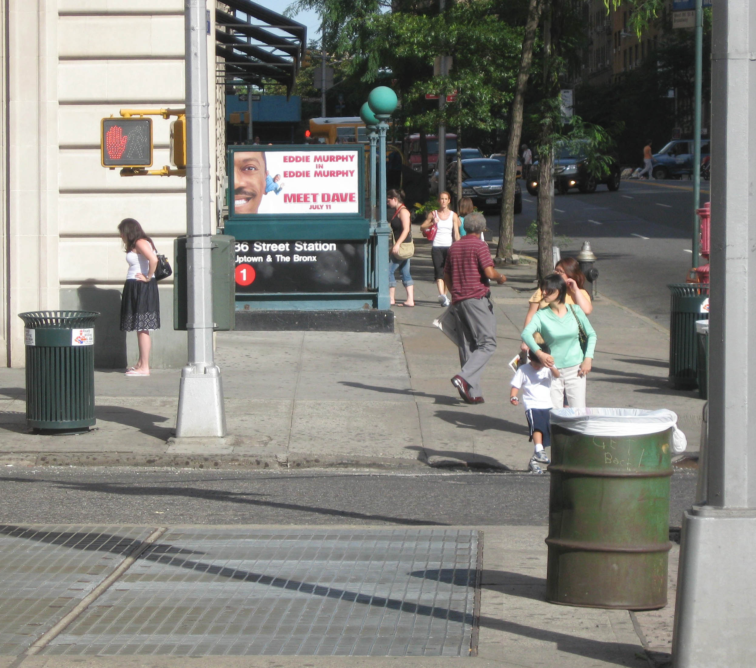 Looking east on a sunny afternoon at en:86th Street (IRT Broadway–Seventh Avenue Line) stair